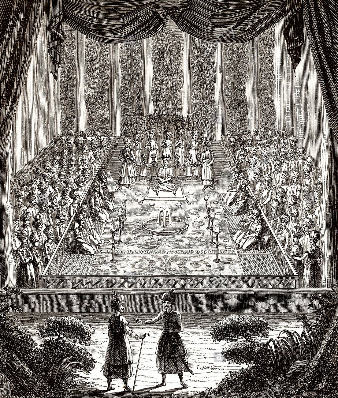 The Coronation of Suleiman I in 1666